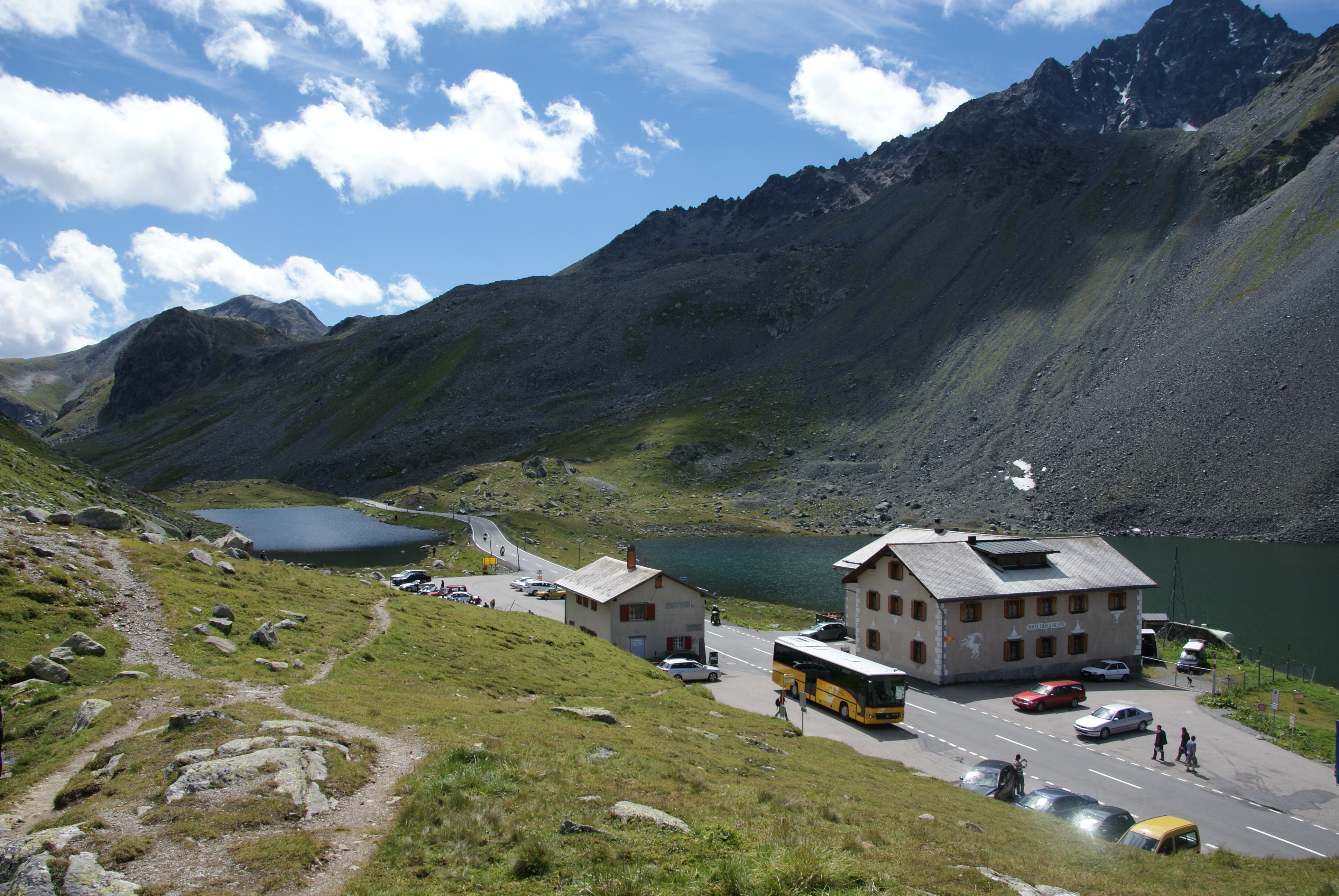 Flüela Pass